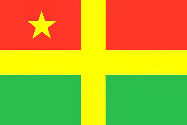 Flag of the Nigerian city of Calabar.